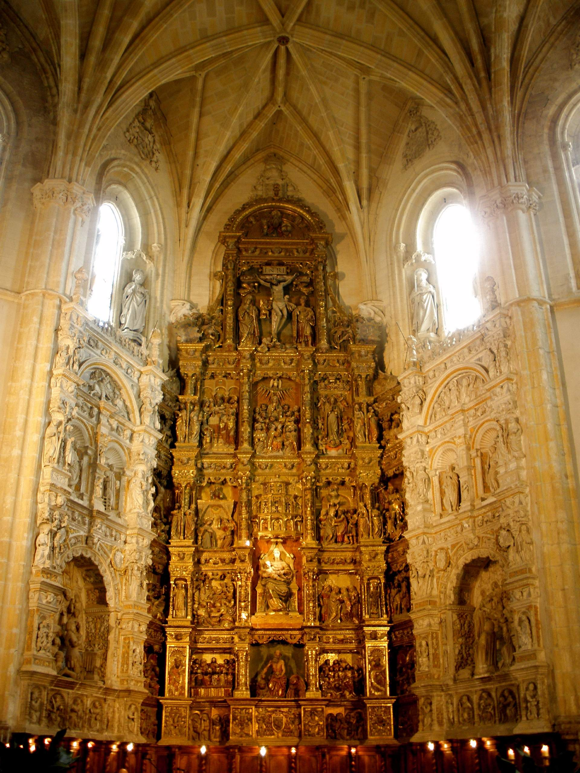 Retablo mayor de la iglesia del Monasterio de Santa María del Parral (Segovia)